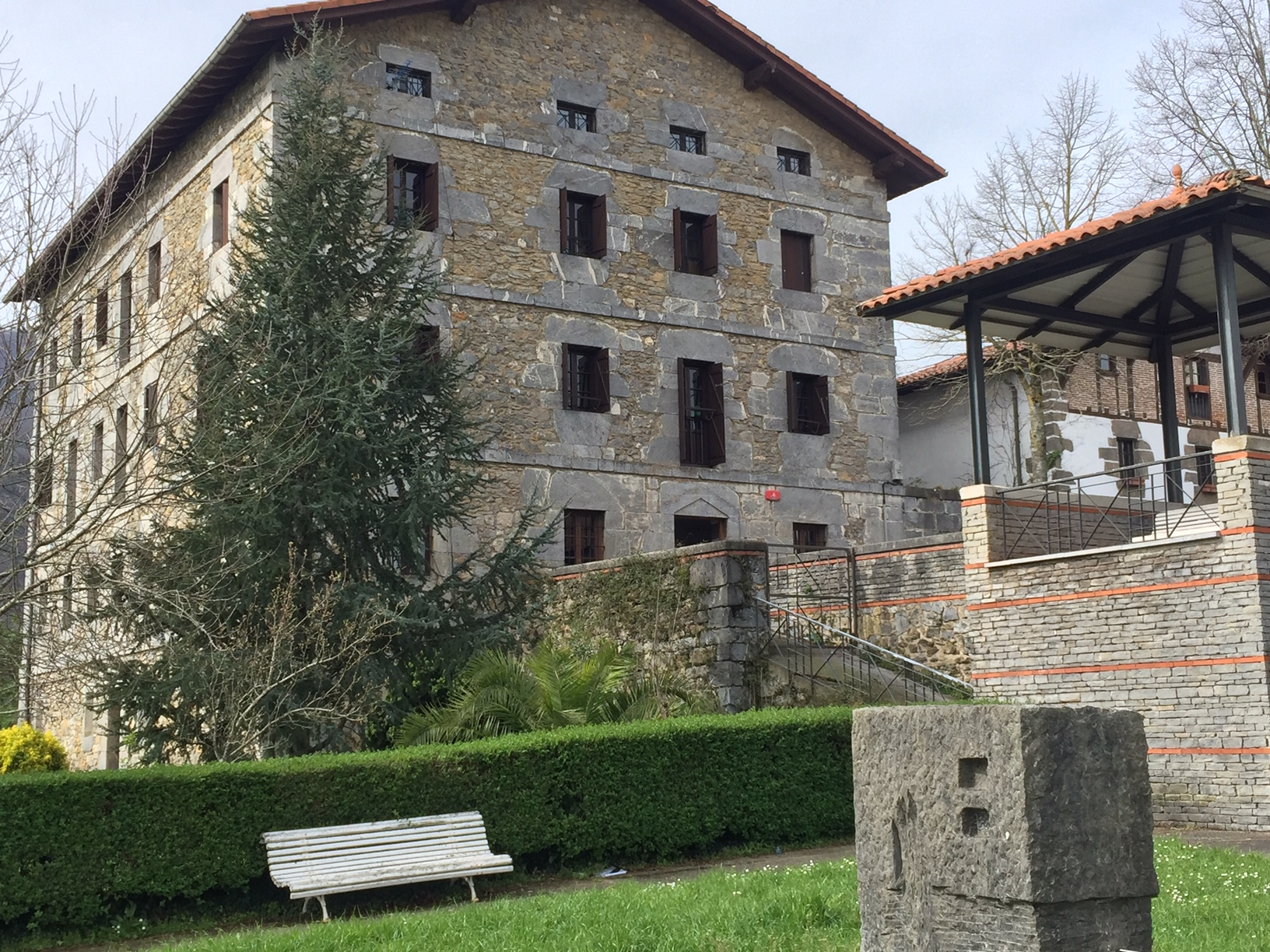 Parish priest house, Alkiza